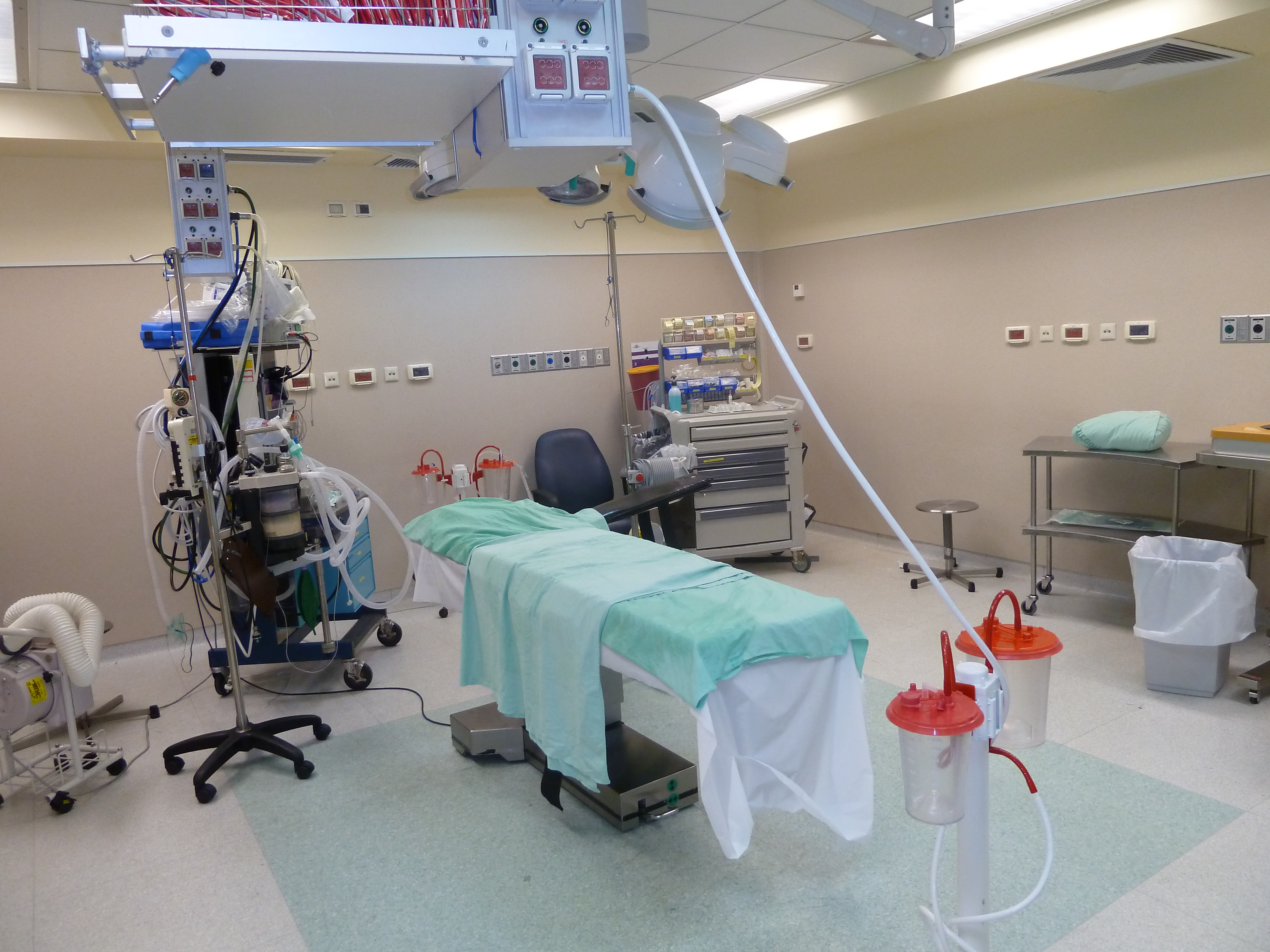 Edith Wolfson Medical Center, Holon, Israel